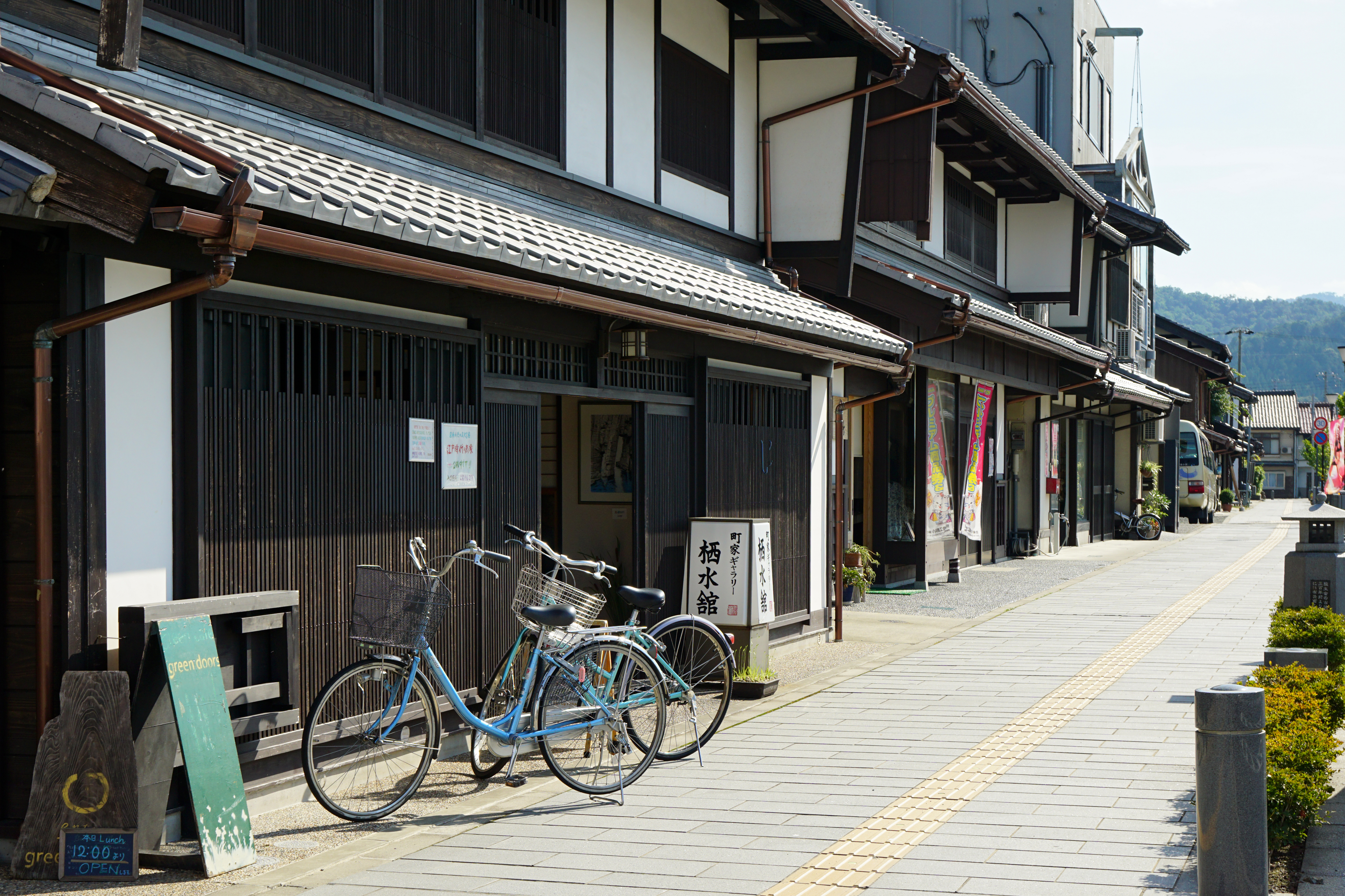 Obama-Nishigumi designated as Important Preservation Districts for Groups of Historic Buildings in Japan. It is located in Obama, Fukui prefecture, Japan.